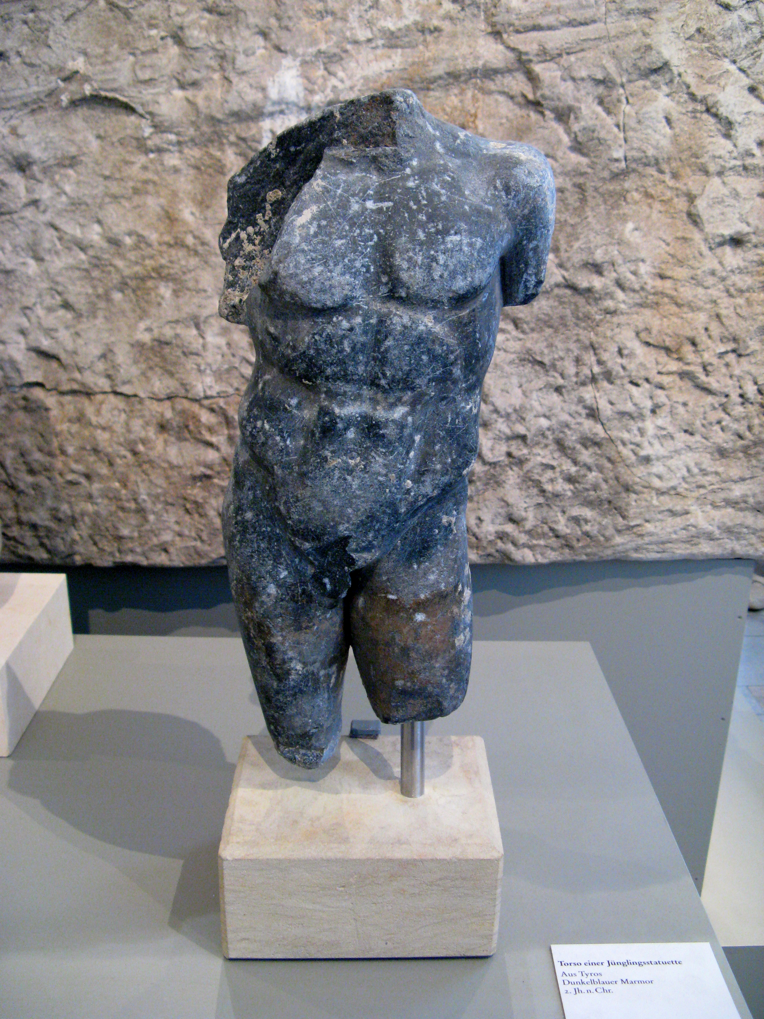 Torso of a statuette of a youth man, made of dark blue marble, from Tyros. 2nd century BC. Antikensammlung Berlin at Altes Museum.